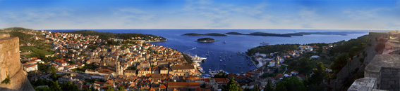 Hvar, pictures taken by Sanja Vukelja. Finished art and montage by Tomislav Vukelja